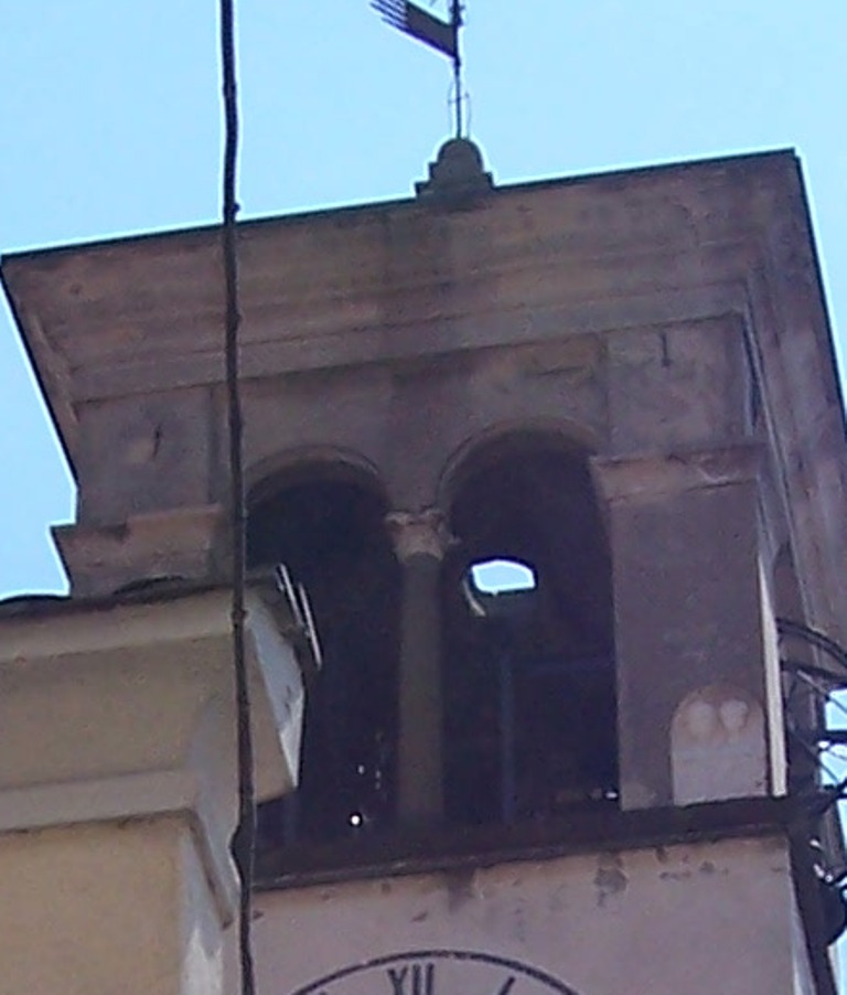 Roman inscription on the bell tower of the parish of Rogno, Val Camonica